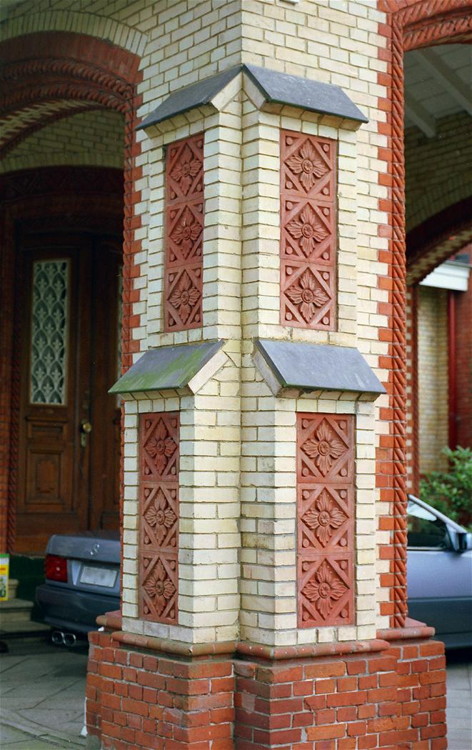 Moorrege (Schleswig-Holstein, Germany), “Düneck-Castle“, photo: 1997